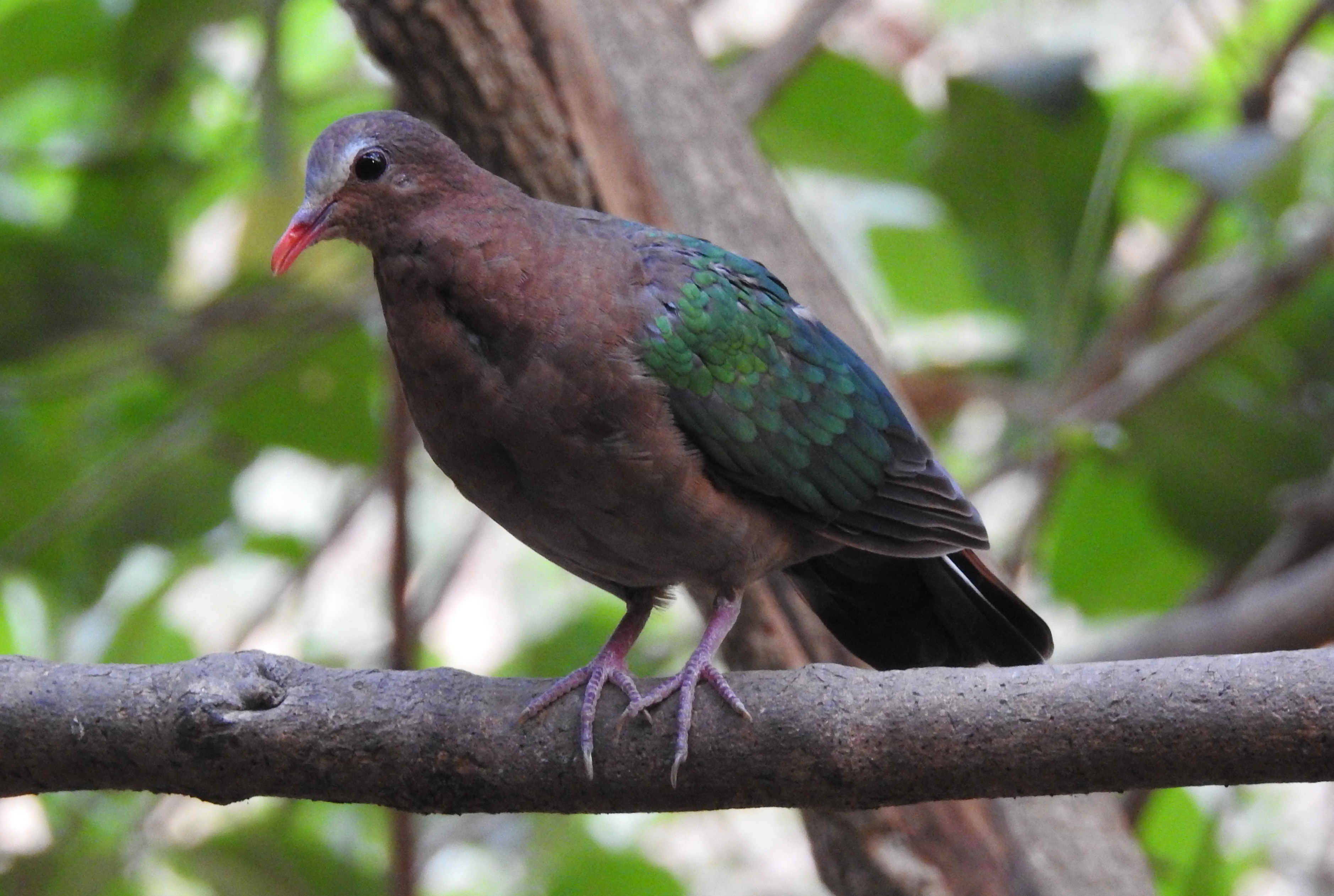 Emerald Dove Chalcophaps indica Female. Photo by by Dr. Raju Kasambe at BNHS Conservation Education Center, Goregaon, Mumbai